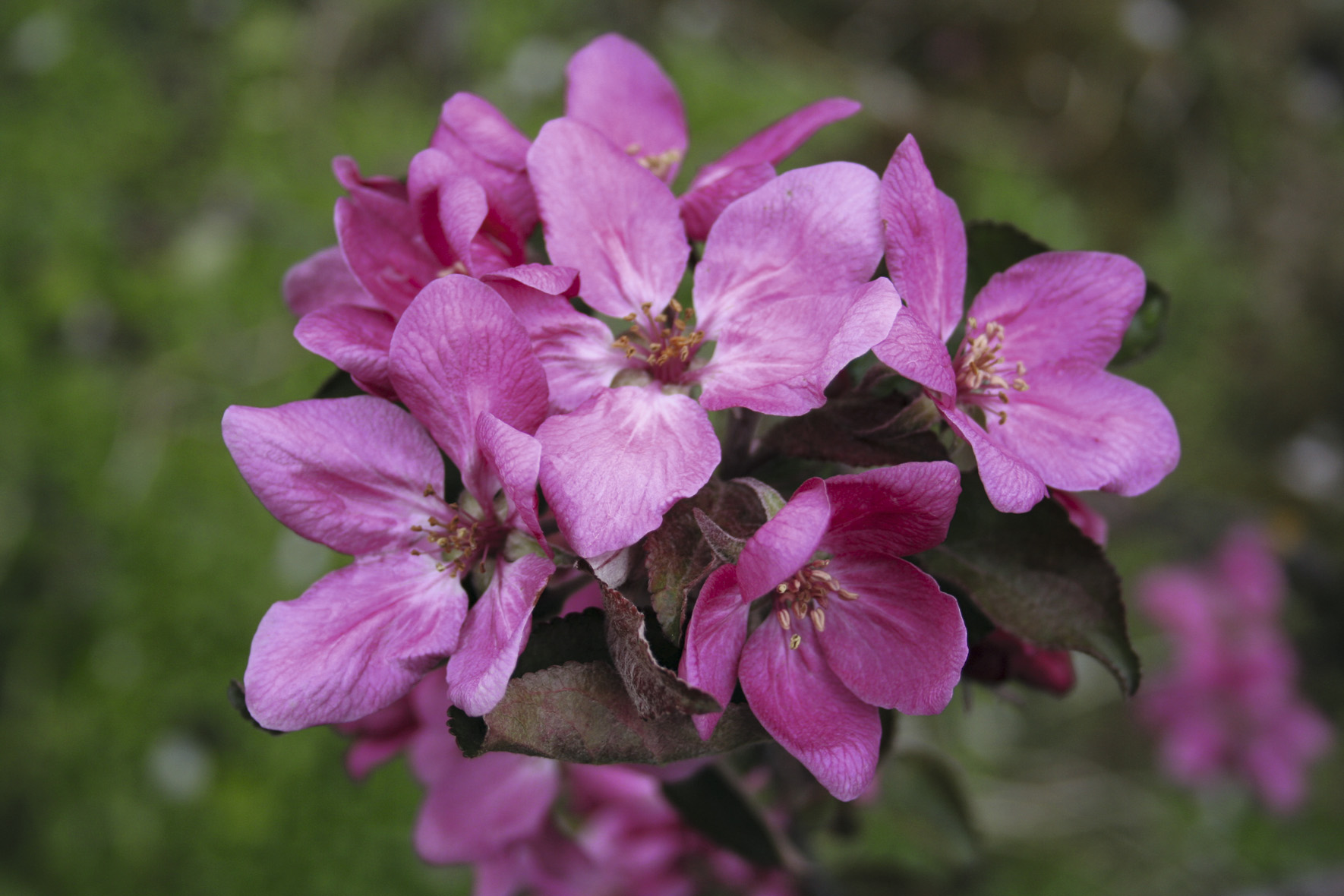 Apple flower of the redfleshed variety Redlove Circe.